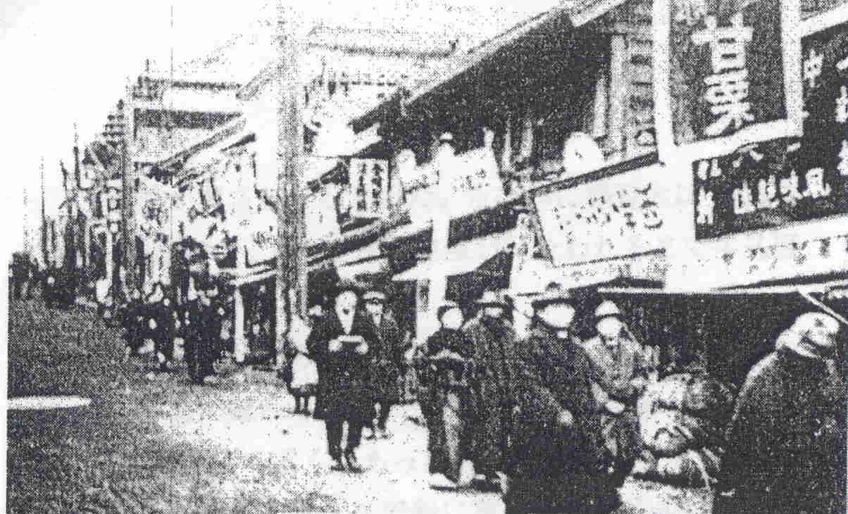 Kagurazaka_in_1908 This photographic image was published before December 31st 1956, or photographed before 1946, under jurisdiction of the Government of Japan. Thus this photographic image is considered to be public domain according to article 23 of old copyright law of Japan (English translation) and article 2 of supplemental provision of copyright law of Japan. To uploader: Please provide an image source.